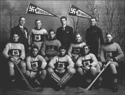 Windsor Swastikas Light Outfits 1912